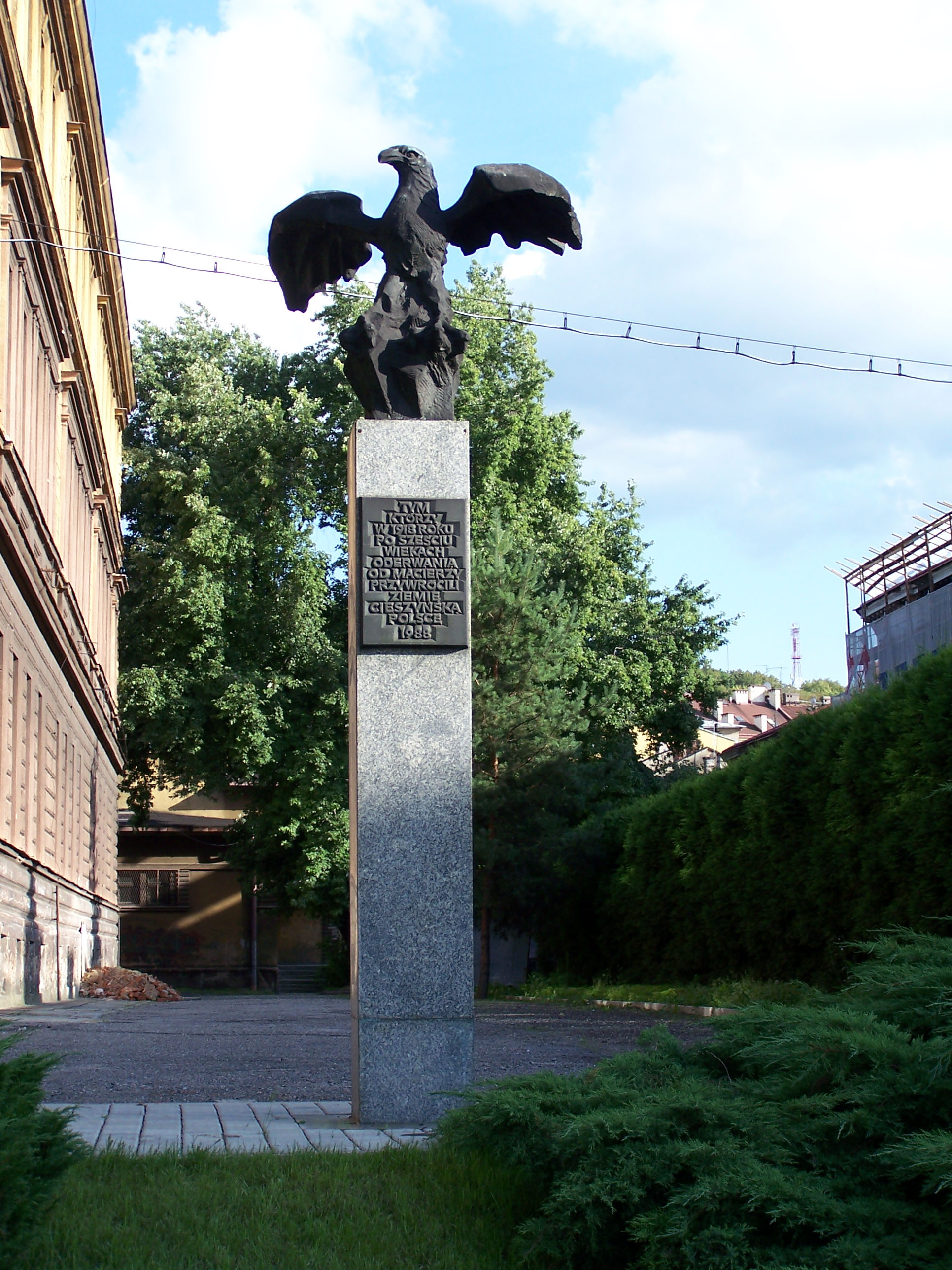 Monument to people who after six centuries restored Cieszyn Silesia to Poland in 1918 in Cieszyn, Poland